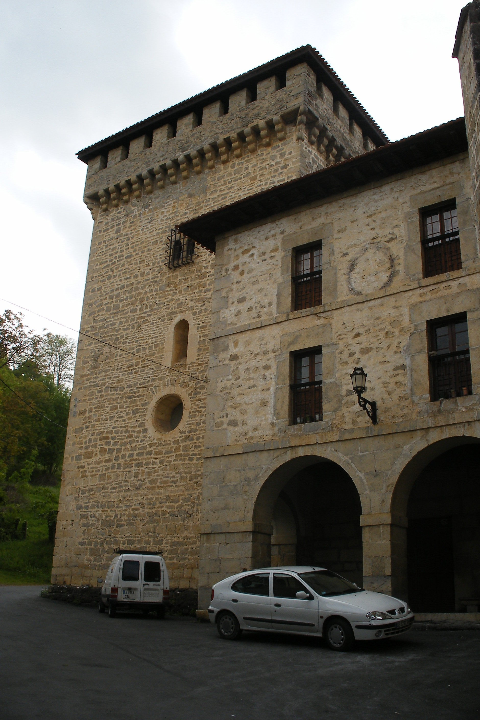 castle of Kexaa, Araba, Basque Country